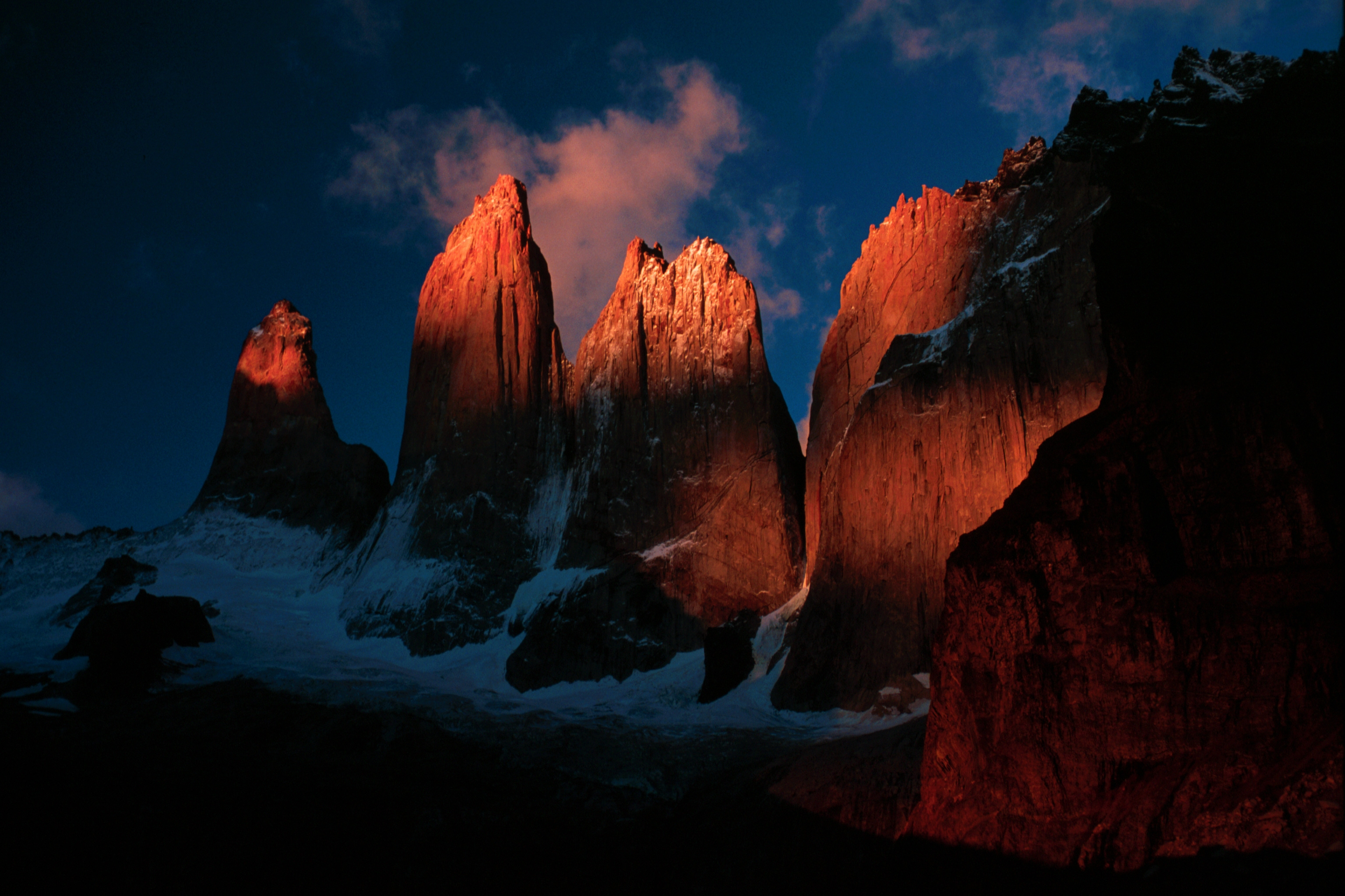 I hiked from the camp to the tdp mirador in the pre-dawn for the sunrise. The couds cleared just in time. (Tip for those doing the same - take your sleeping bag and mat with you - it makes the wait much more comfortable!)